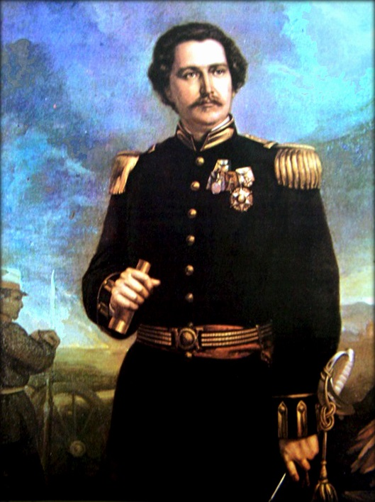 Portrait of Alfredo d'Escragnolle Taunay by Louis-Auguste Moreaux.